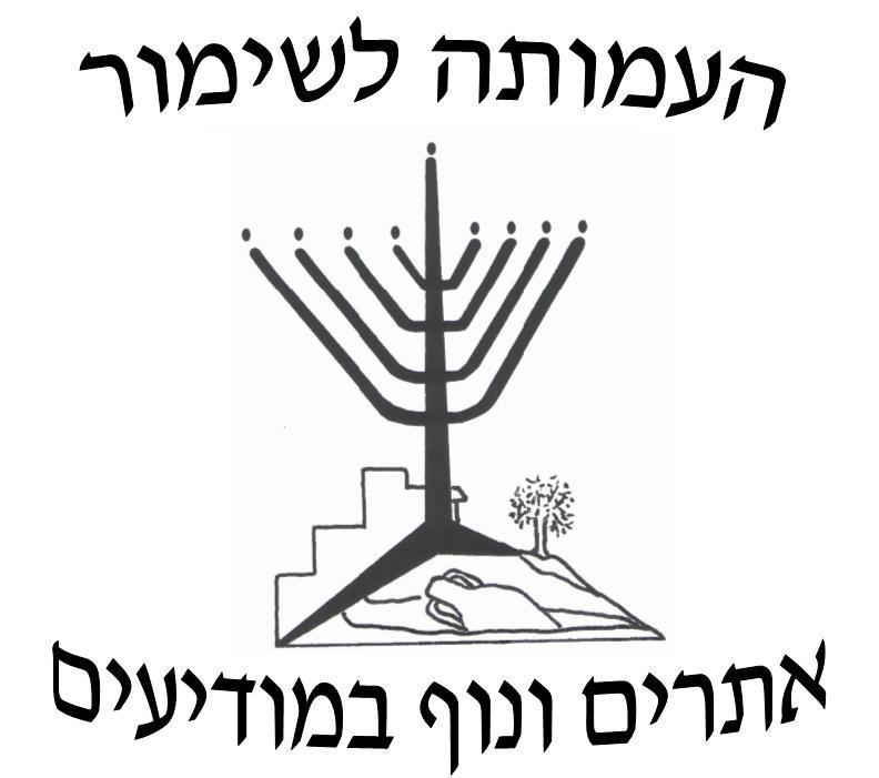 Logo of the non-profit organization for preserving sites and views in Modi'im county, Israel